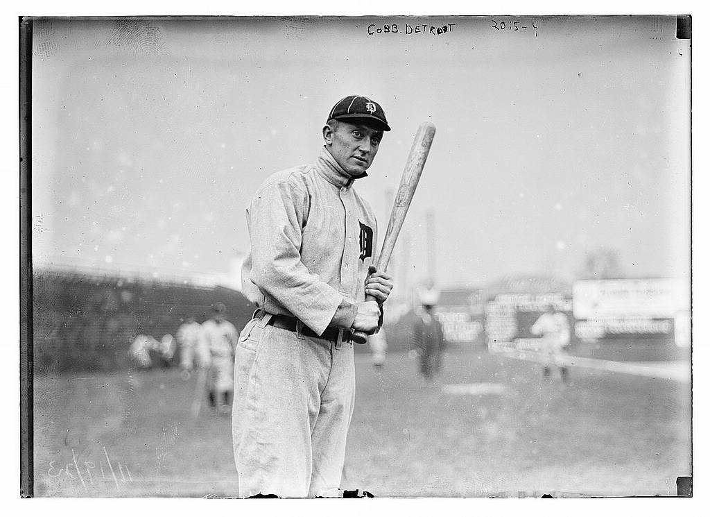 Ty Cobb, Detroit Tigers outfielder